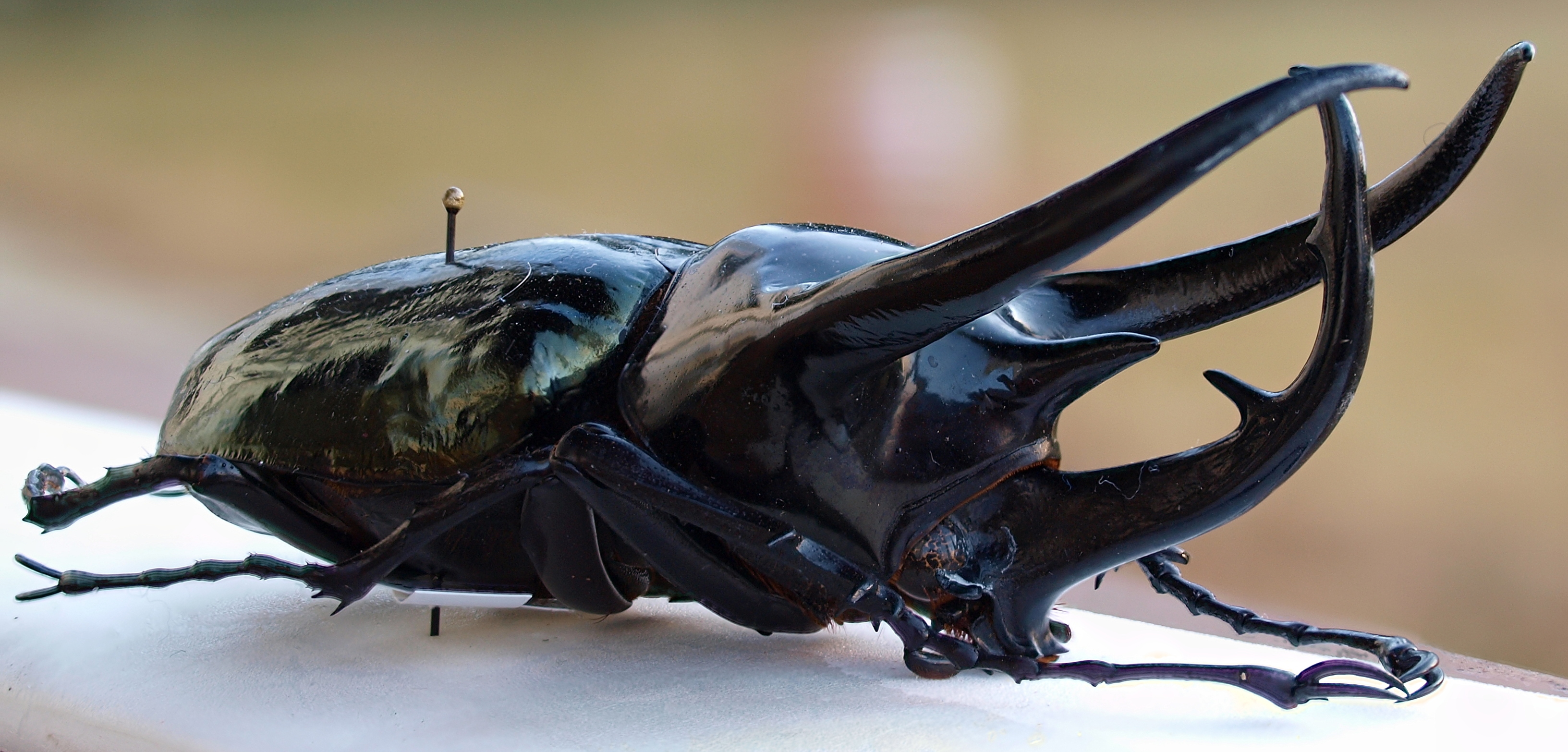 Chalcosoma caucasus, male, stacked image. Source: own collection